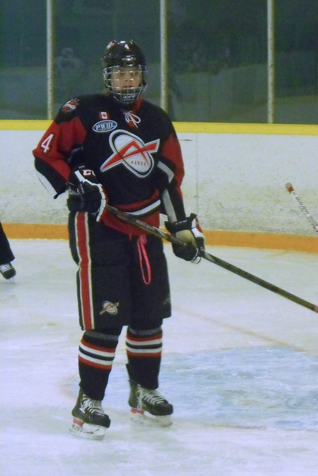 Taken by Devan Mighton during 2013-14 PWHL season.